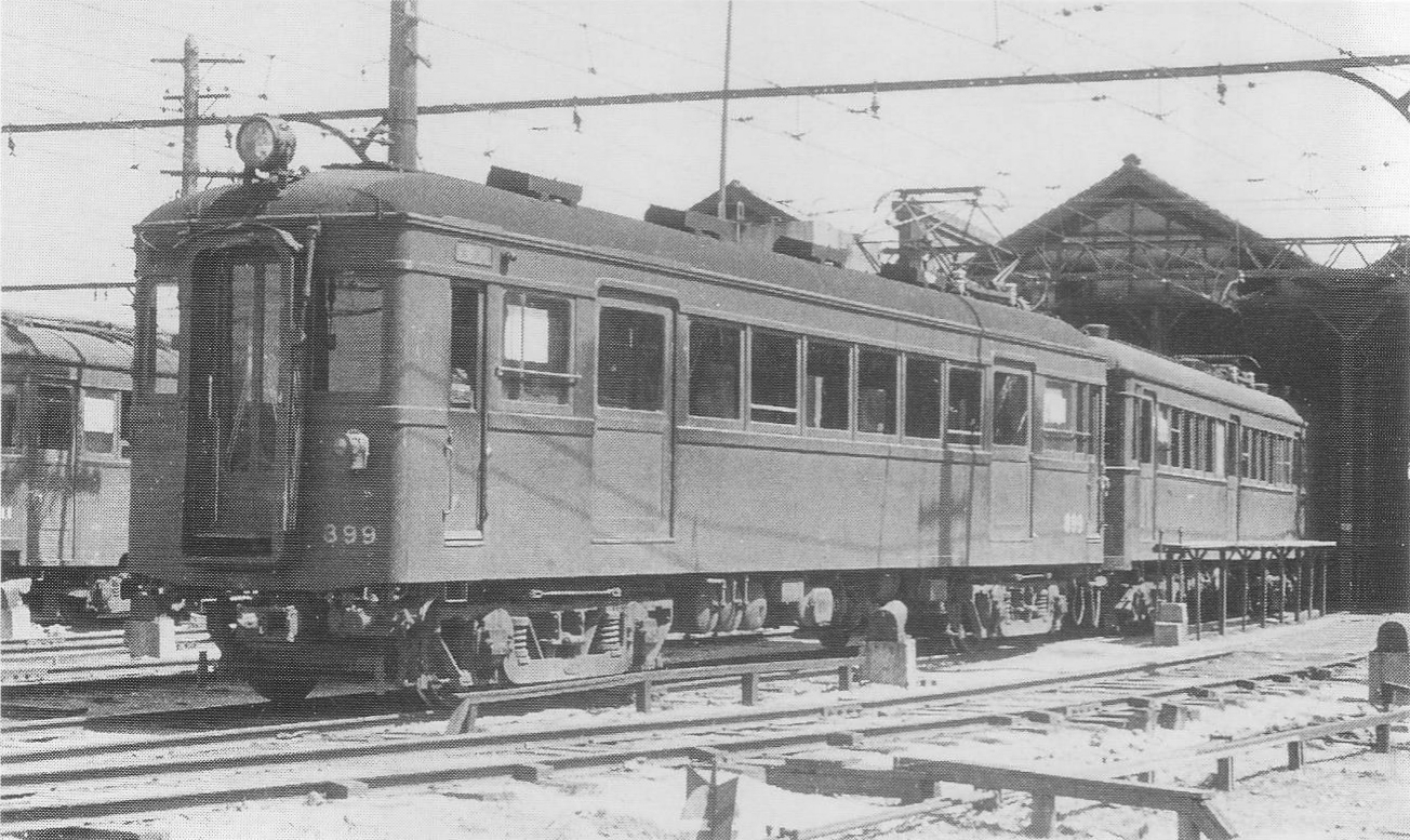 Hanshin #899. taken in 1947.